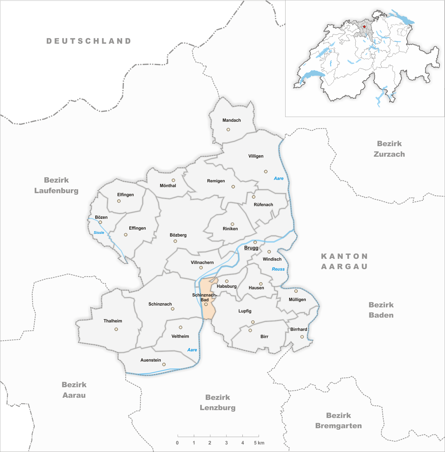 Municipality Schinznach-Bad